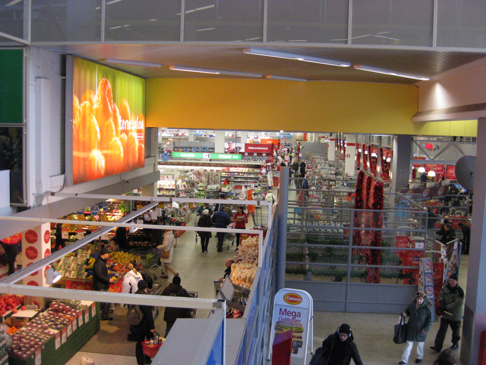 K-citymarket in shopping mall City-Jätti, Itäkeskus, Helsinki